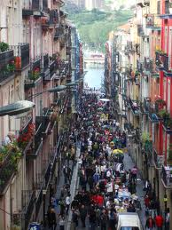 Street in Bilbao